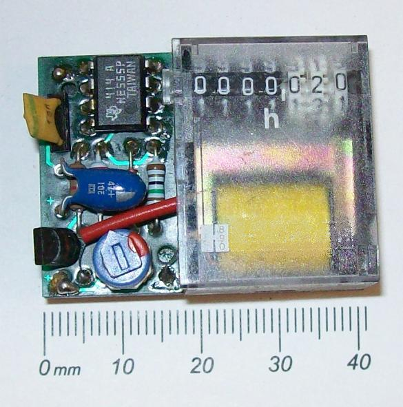 hour counter for DC operation